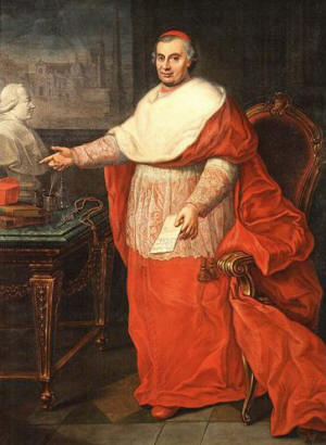 Giovanni Carlo Bandi